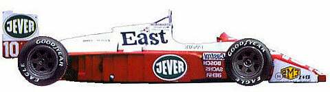 Zakspeed 871 Formula 1 car, used in 1987 season by team Zakspeed